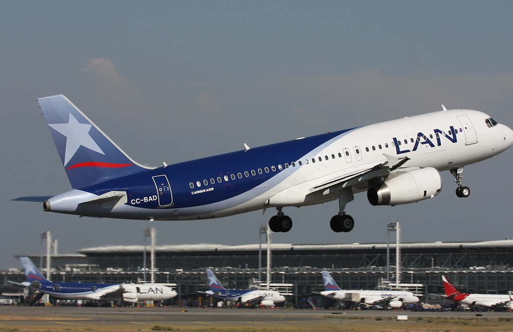 LAN A320-232 TAKING OFF FROM SCL.